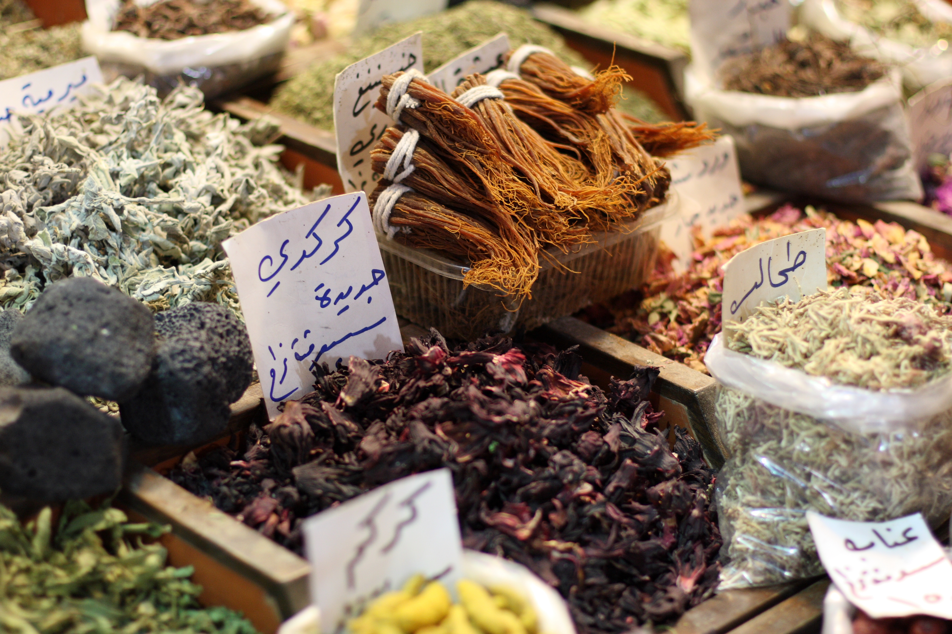 Aleppine spices at Suq al-Attarine